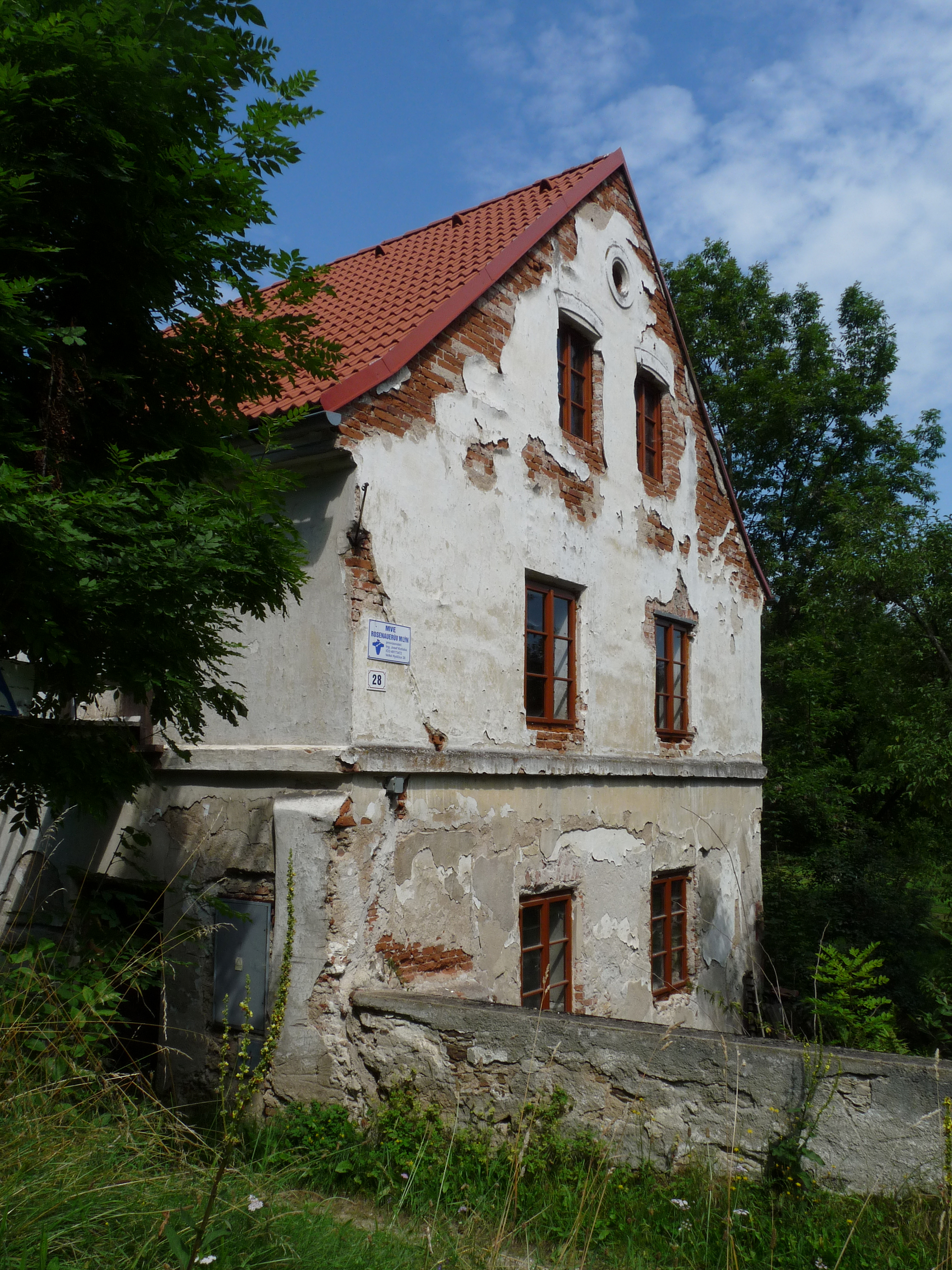 Rosenauerův mlýn (Rosenauer mill) in Velké Hydčice near Horažďovice, Klatovy District, Czech Republic.